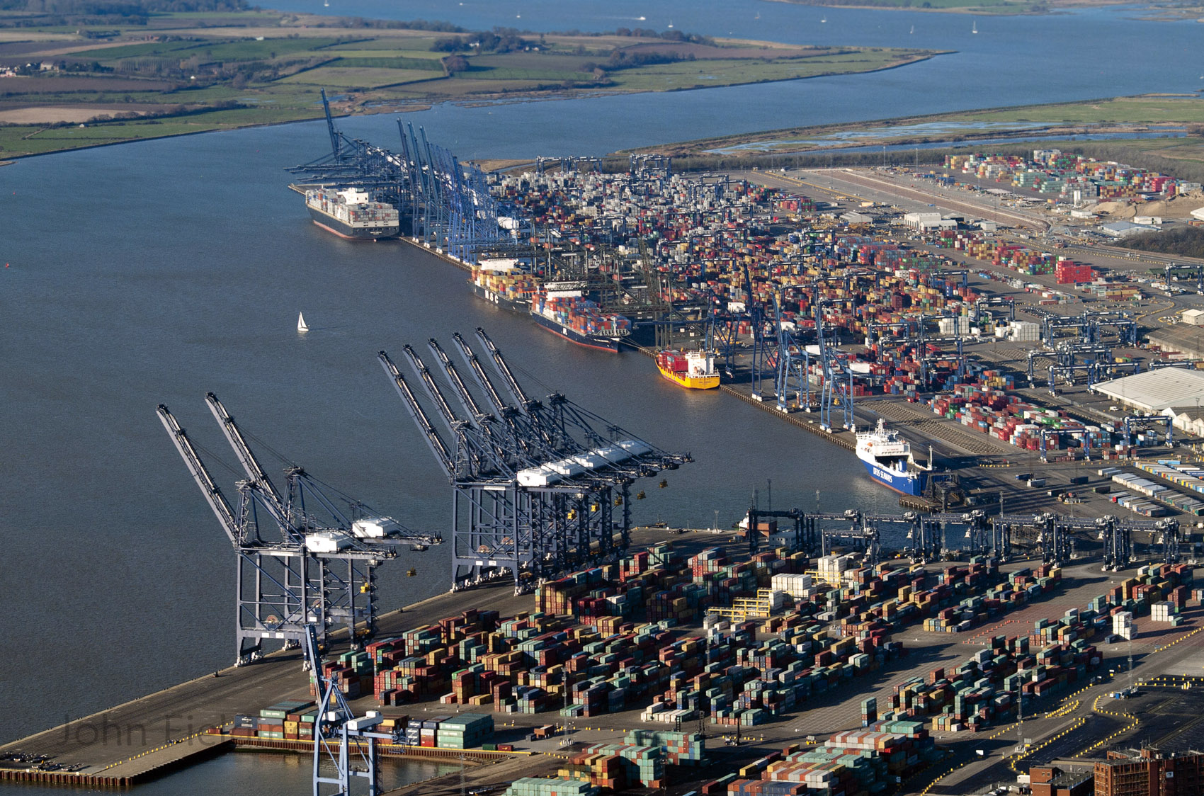 The Dock, Felixstowe, Suffolk, IP11 3SY.